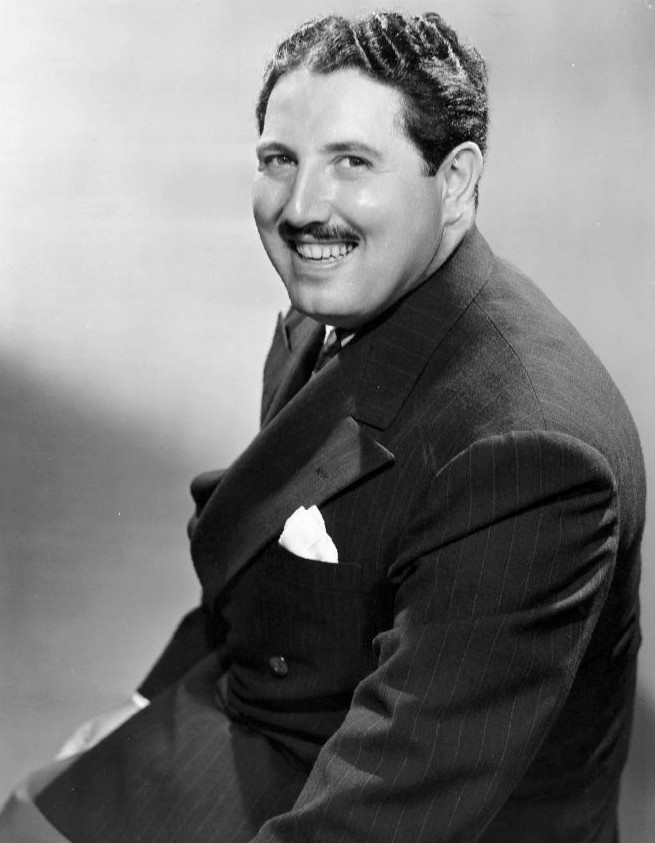 Photo of actor Harold Peary. Peary was active in radio, television and film. He's probably best remembered for his role as The Great Gildersleeve.